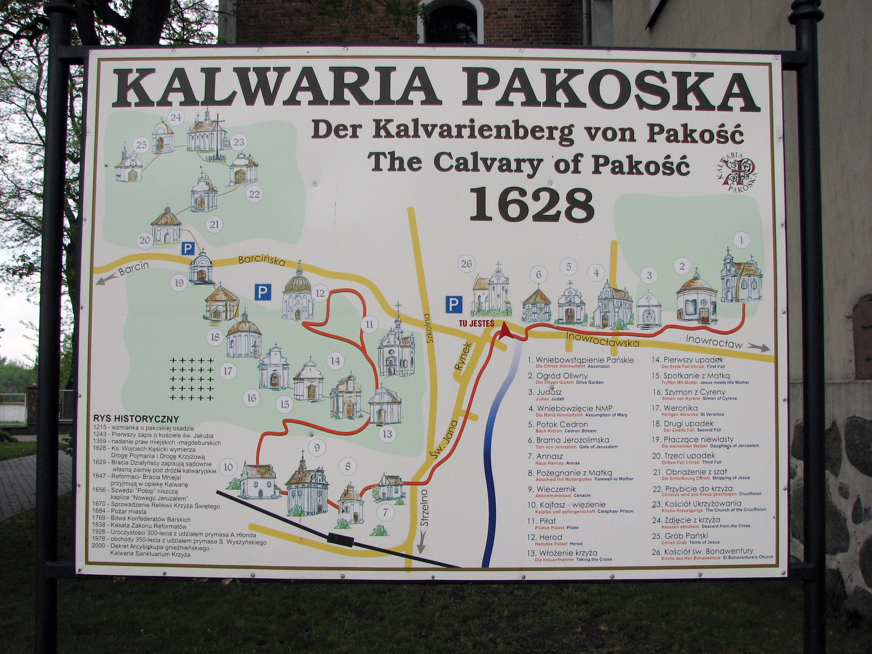 Town Plan of The Calvary of Pakość, Poland.